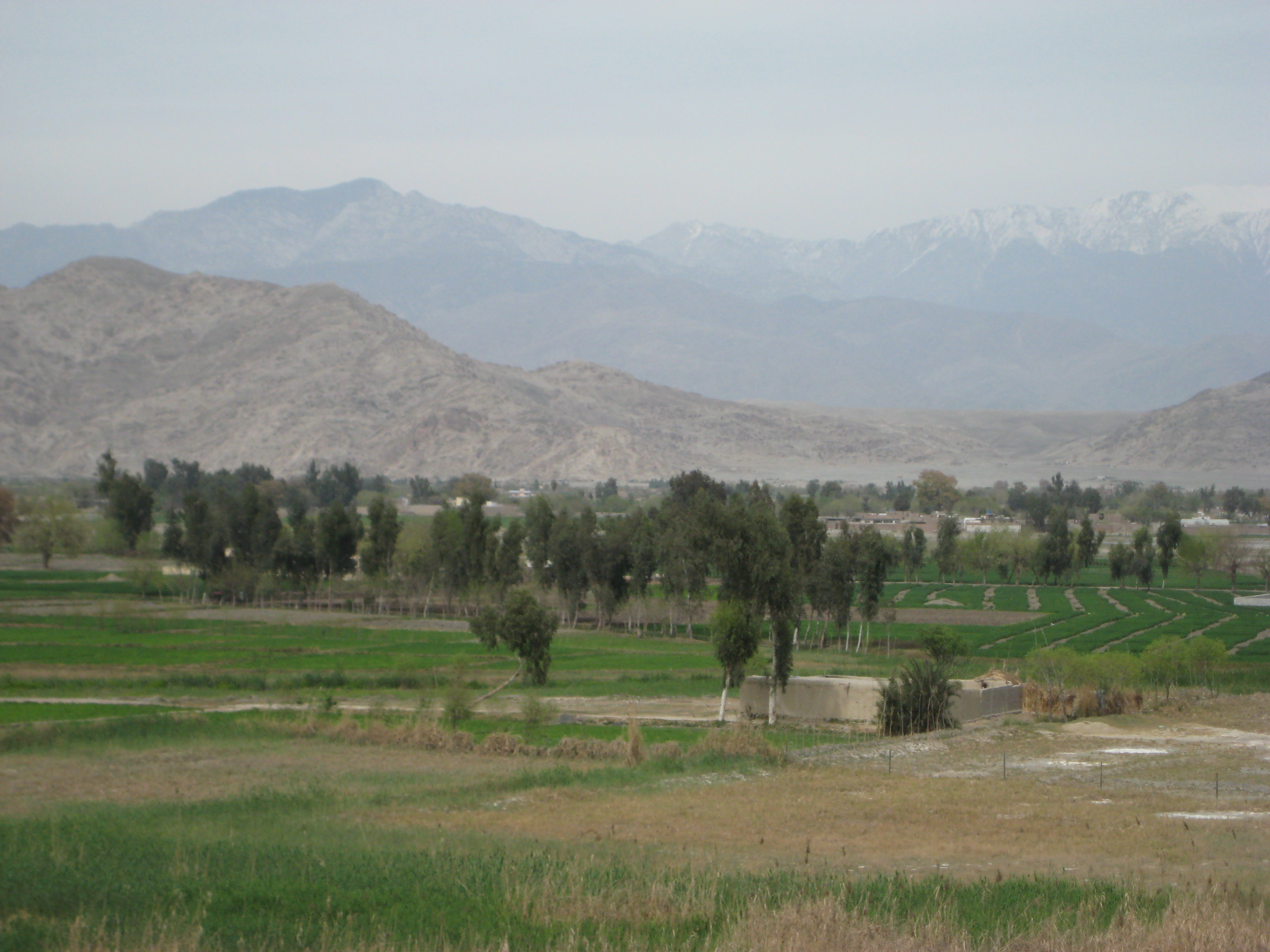 Behsud District, photographed on the outskirts of Jalalabad, looking north.